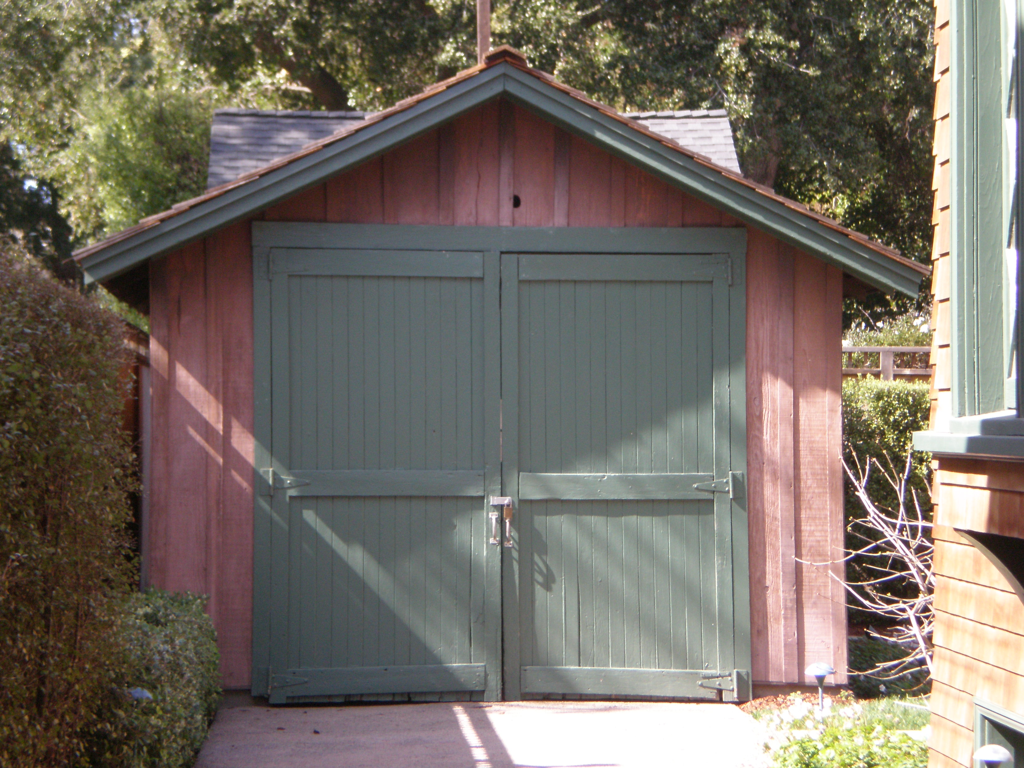 The HP garage at 367-369 Addison Avenue in Palo Alto, California.